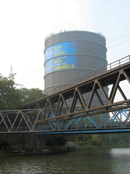 Rhein-Herne-Canal and Gasometer, Oberhausen